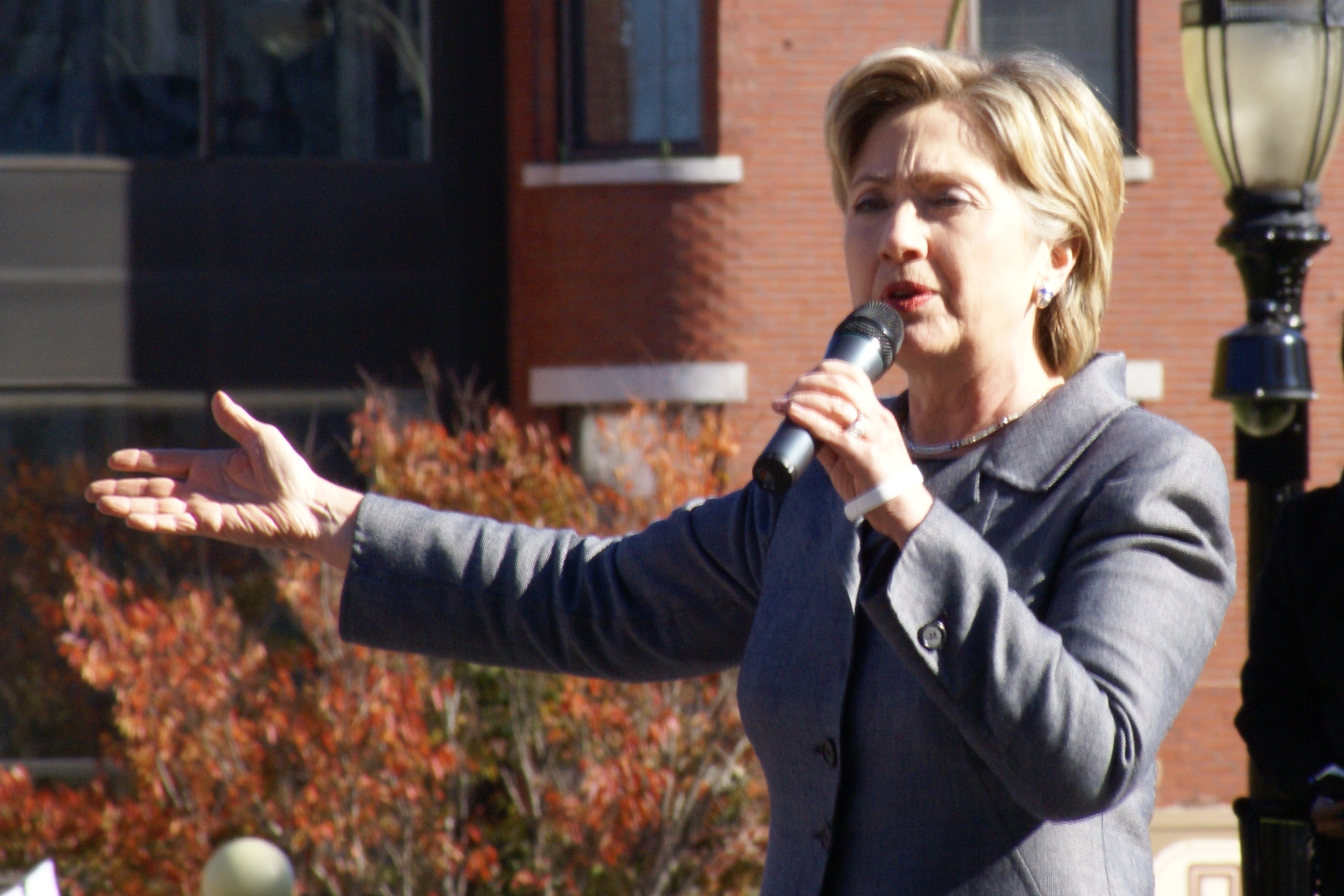 Hillary Clinton in Concord, New Hampshire